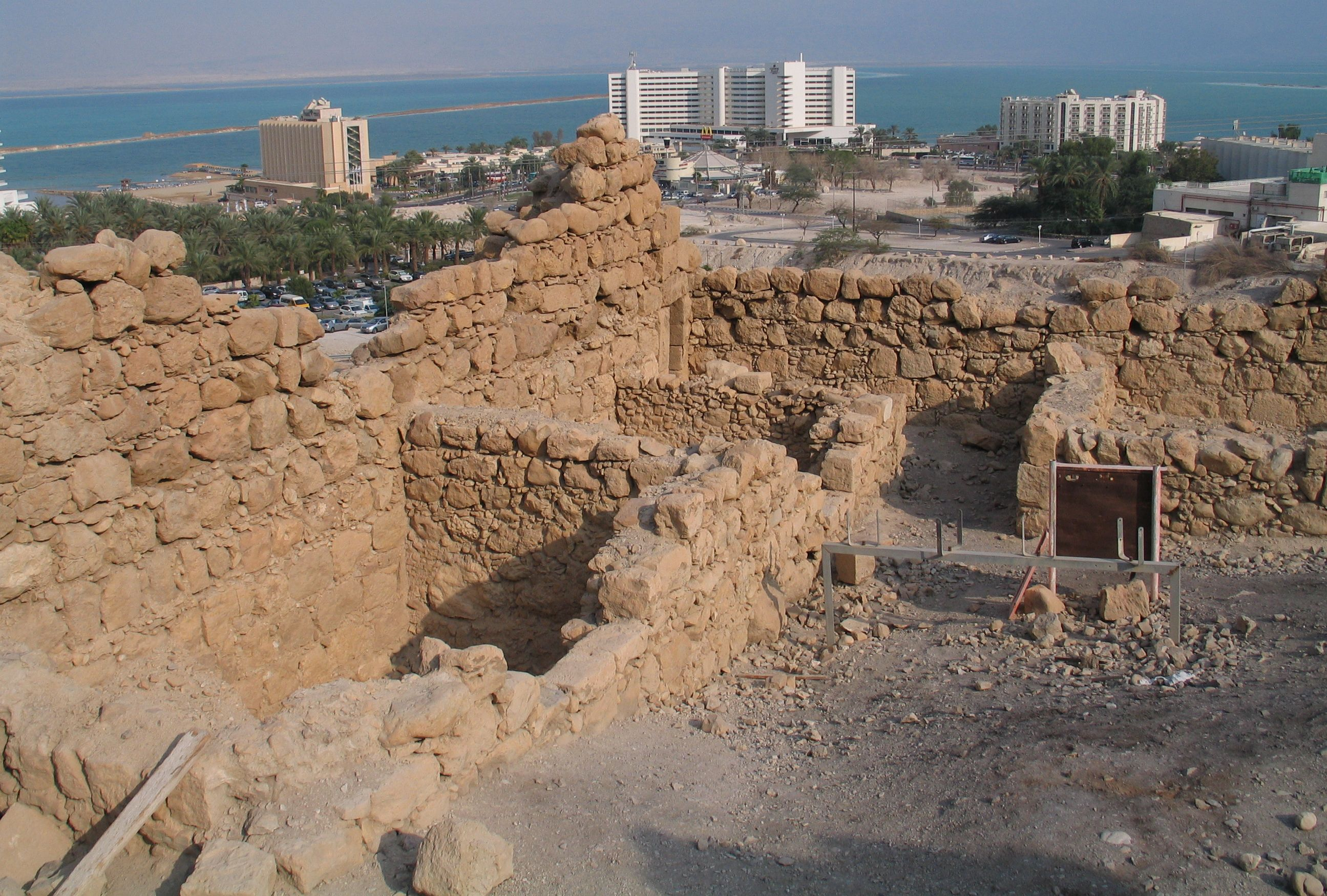 Bokek Stronghold, Ein Bokek, Israel.